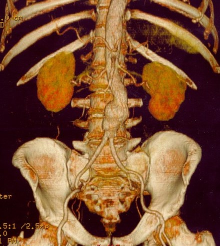 Abdominal Aortic Aneurysm in Computer Tomography